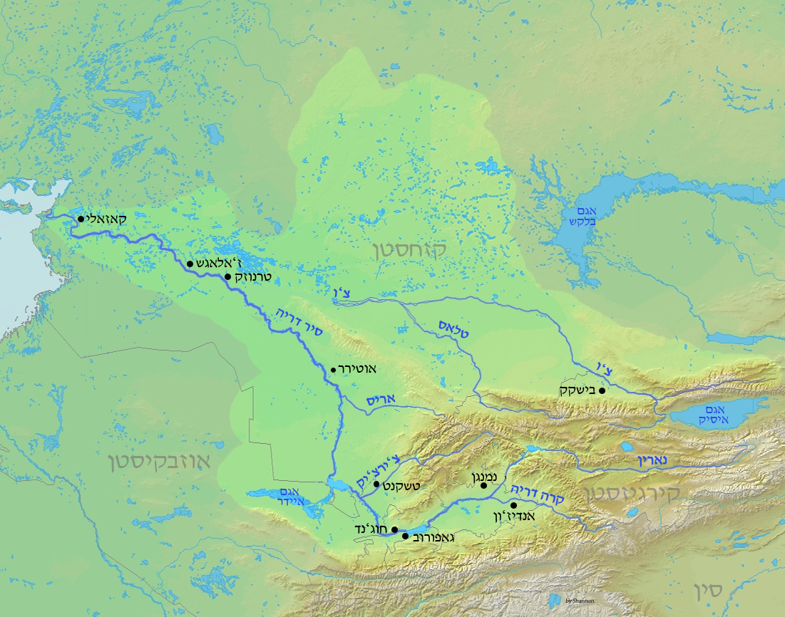 Map of the watershed of the Syr Darya in Central Asia, that drains to the Aral Sea.